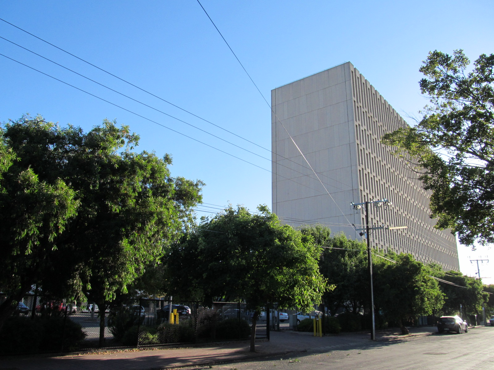 The South Australian offices of the Australian Broadcasting Corporation (ABC) on North East Road, Collinswood, Adelaide, taken from the west.